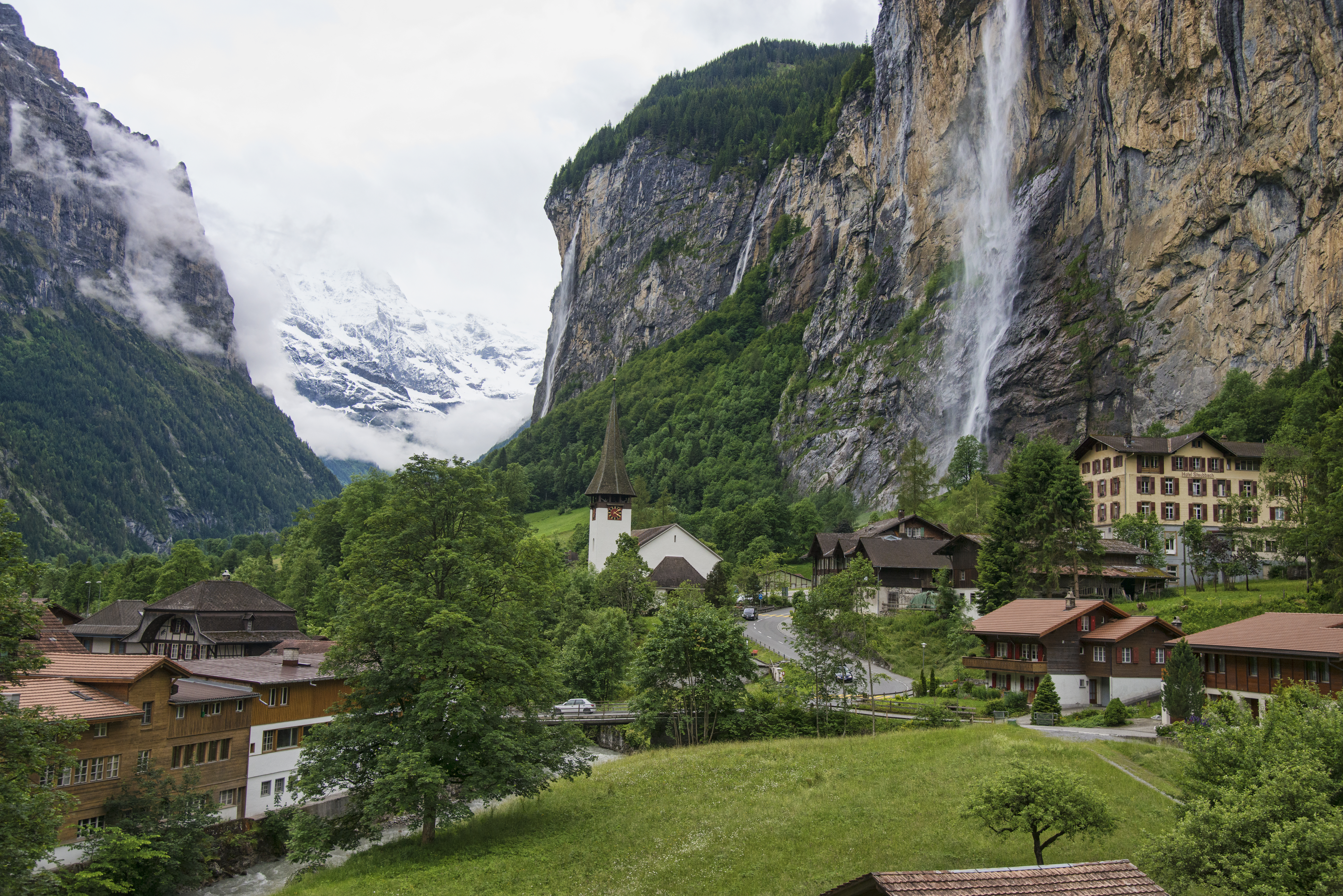 Lauterbrunnen Valley and Staubbach Falls, Switzerland, 2012